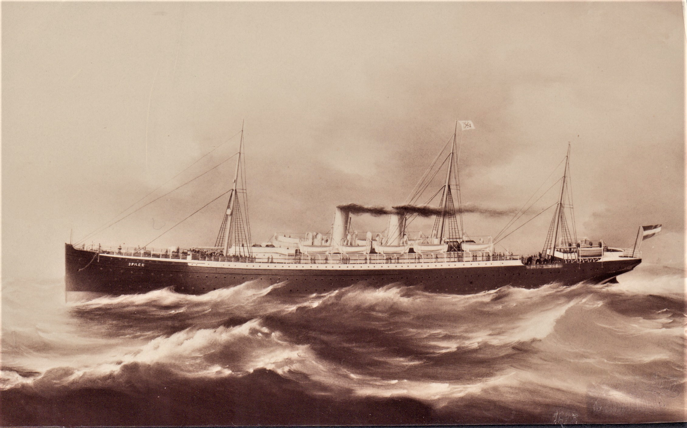 SS Spree North German Lloyd Company, Sander & Sohn Photographen Geestemunde